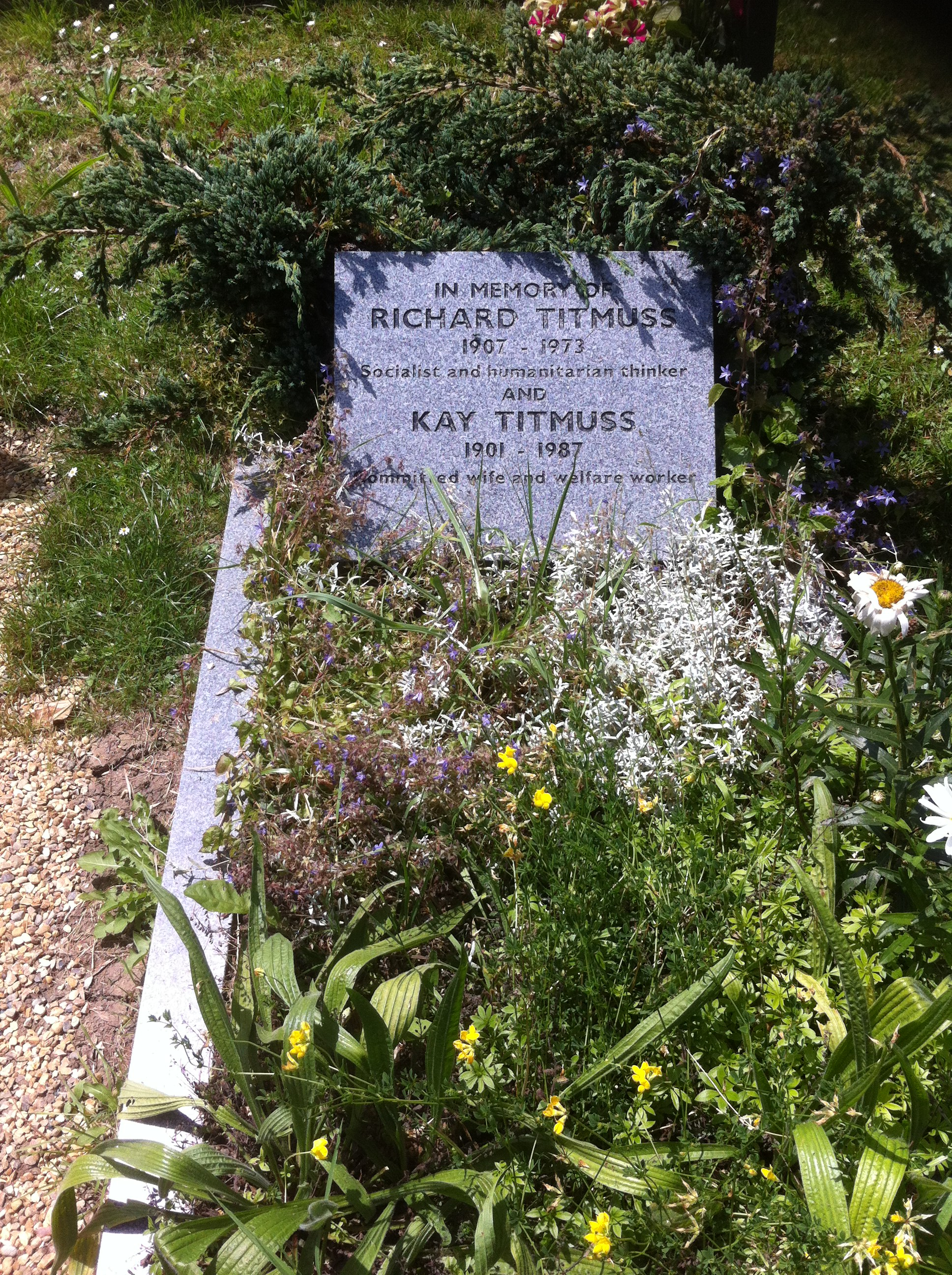 The grave of Richard Titmuss and his wife, Kay, in Highgate Cemetery.